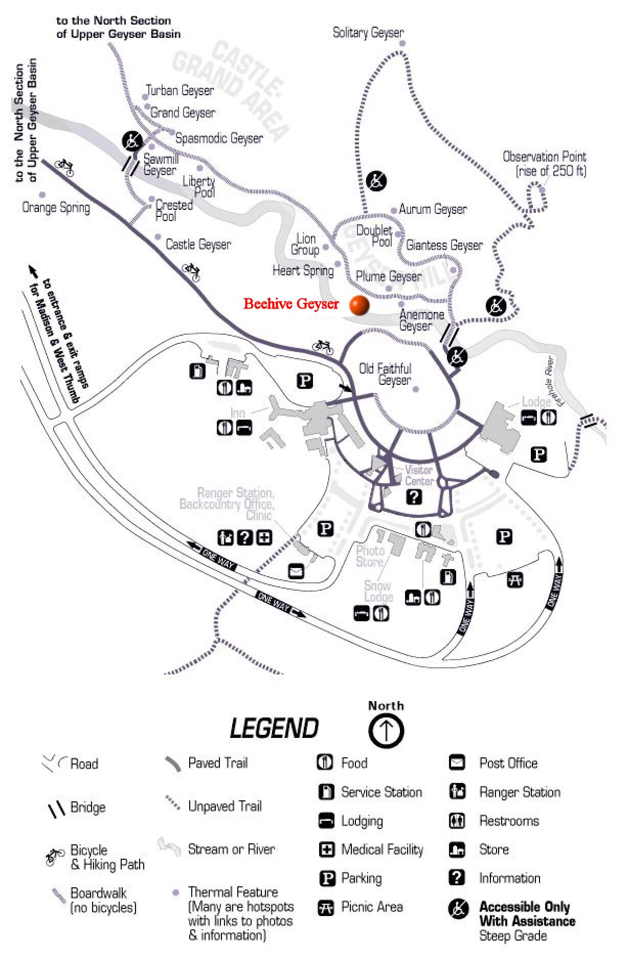 Southern section of Upper Geyser Basin, Yellowstone National Park, Wyoming with Beehive Geyser annotated